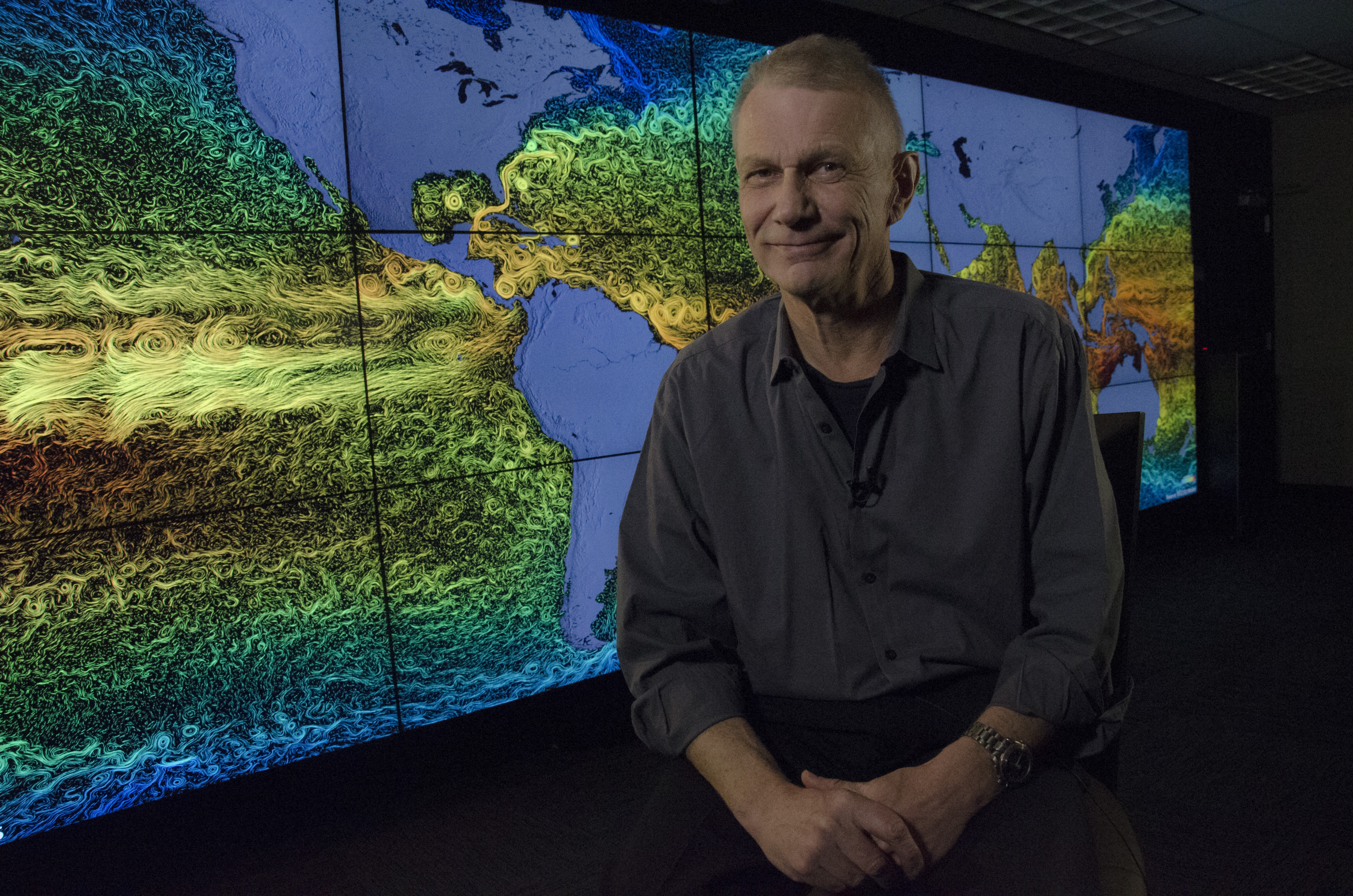 Piers Sellers is currently Deputy Director of the Sciences and Exploration Directorate and Acting Director of the Earth Sciences Division at NASA/GSFC. He was born and educated in the United Kingdom and moved to the U.S. in 1982 to carry out climate research at NASA/GSFC. From 1982 to 1996, he worked on global climate problems, particularly those involving interactions between the biosphere and the atmosphere, and was involved in constructing computer models of the global climate system, satellite data interpretation and conducting large-scale field experiments in the USA, Canada, Africa, and Brazil. He served as project scientist for the first large Earth Observing System platform, Terra, launched in 1998. He joined the NASA astronaut corps in 1996 and flew to the International Space Station (ISS) in 2002, 2006, and 2010, carrying out six spacewalks and working on ISS assembly tasks. He returned to Goddard Space Flight Center in June, 2011. Credit: NASA/Goddard/Rebecca Roth NASA image use policy. NASA Goddard Space Flight Center enables NASA’s mission through four scientific endeavors: Earth Science, Heliophysics, Solar System Exploration, and Astrophysics. Goddard plays a leading role in NASA’s accomplishments by contributing compelling scientific knowledge to advance the Agency’s mission. Follow us on Twitter Like us on Facebook Find us on Instagram